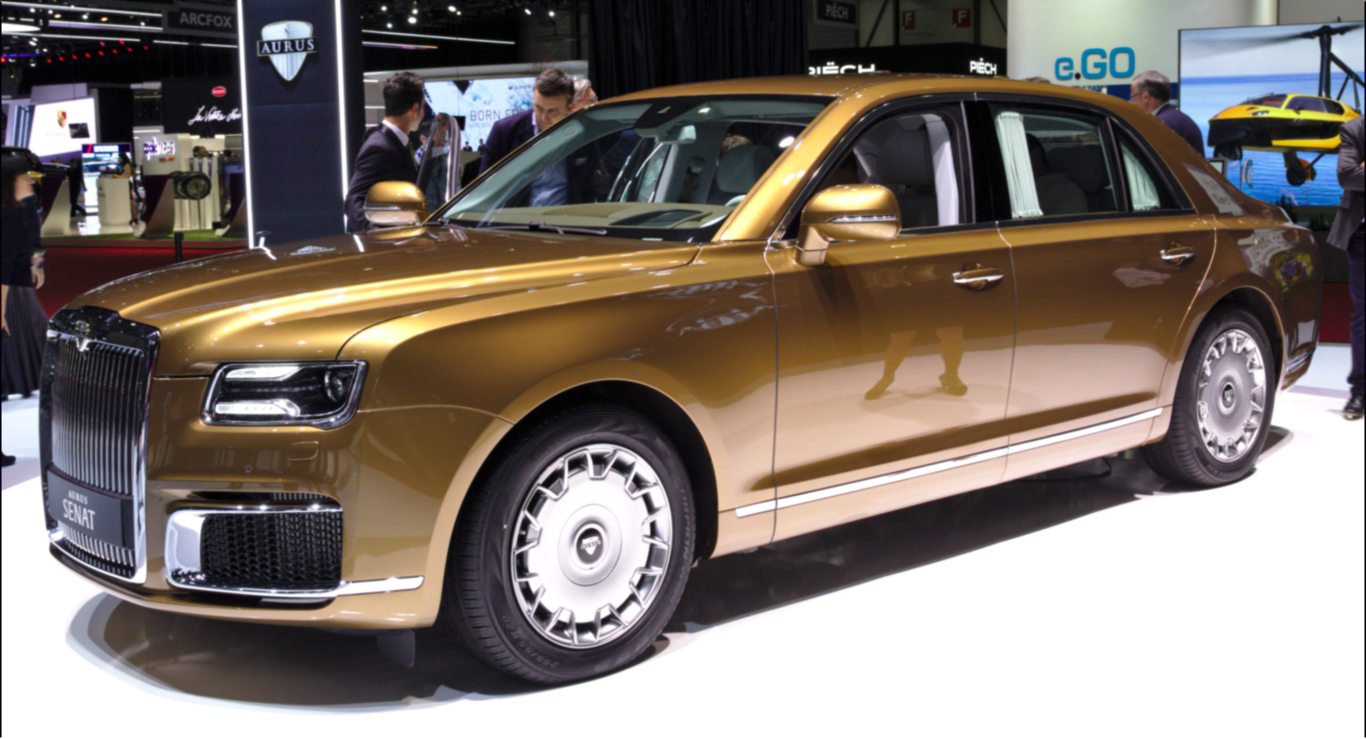 Aurus Senat at Geneva Motor Show 2019